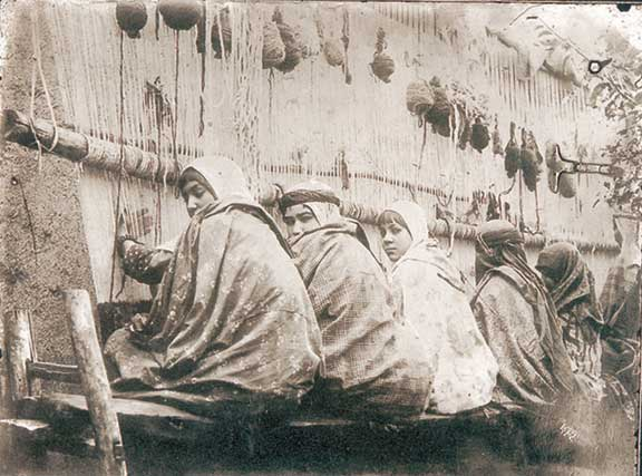 Antoin sevruguin's historical photographs